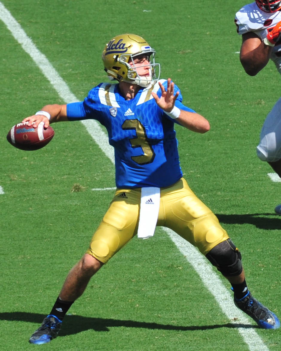 Josh Rosen of UCLA passing against Virginia.